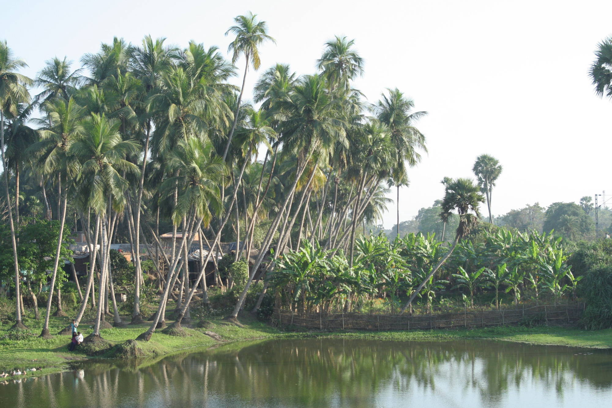 Raghurajpur- Orissa- India